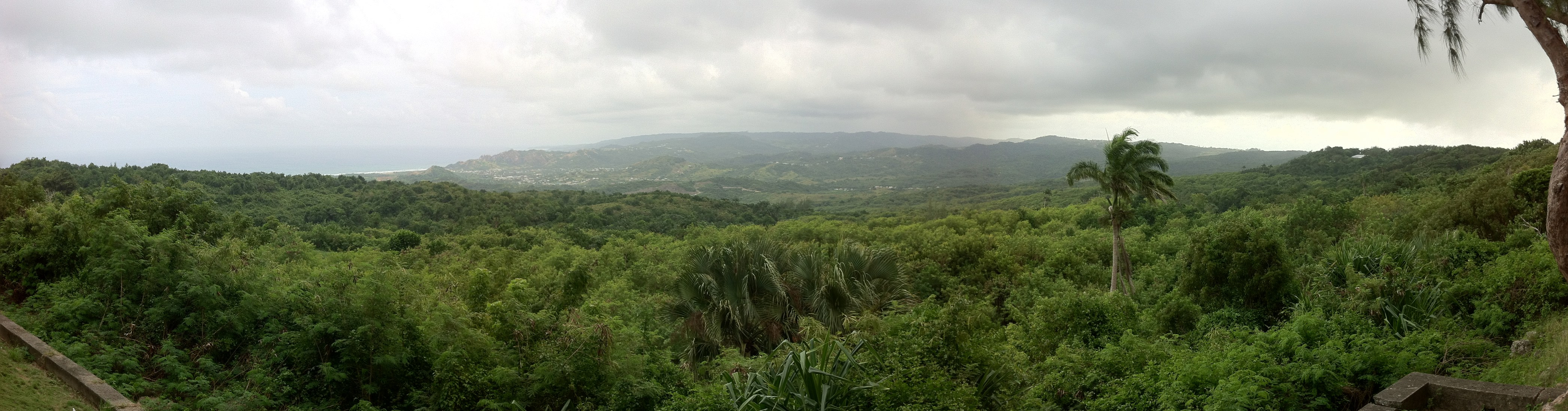 Panorama of overlook of Farley Hill in Barbados